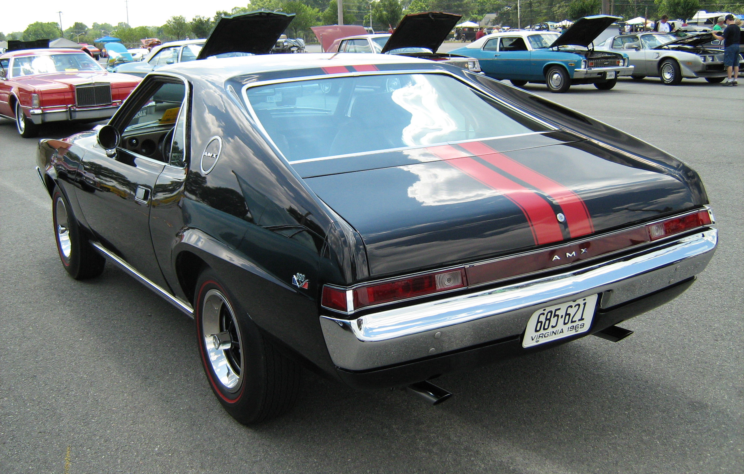 1969 AMX by American Motors Corporation (AMC). A two-seat GT-type sports coupe. Finished in "Classic Black" with red stripes. This car has the optional 390 "Go Package" that included the 390 cu in (6.4 L) 315 hp (235 kW) V8 engine, racing stripes (over the hood, roof, and trunk), power disk brakes (front), Twin-Grip differential, heavy-duty cooling (including a seven-blade flex fan and shroud), as well as a 140-mph (225-km/h) speedometer and styled steel "Magnum 500" wheels with bright trim rings. The high-performance E70x14 red stripe wide-oval tires are correct factory standard equipment for this year.